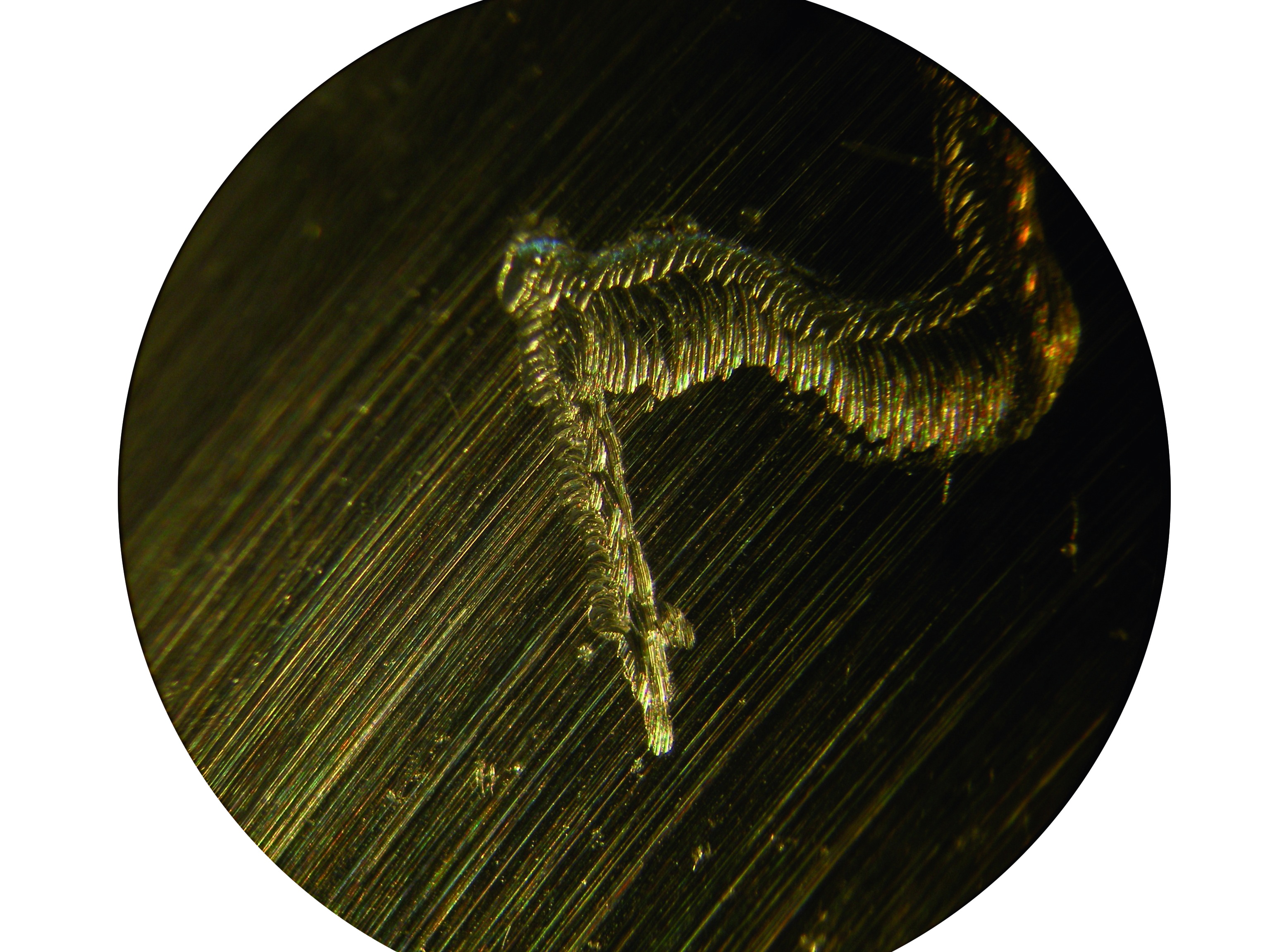 Initial details of the surface with a specially coated defect)